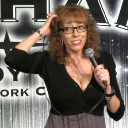 Image of Alia Janine at Gotham Comedy Club. Cropped from .